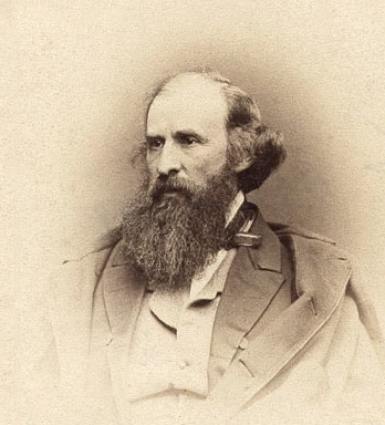 Carte de visite portrait of Brown.